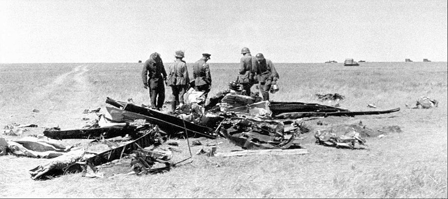 Khalkhyn Gol. Destroyed Japanese plane